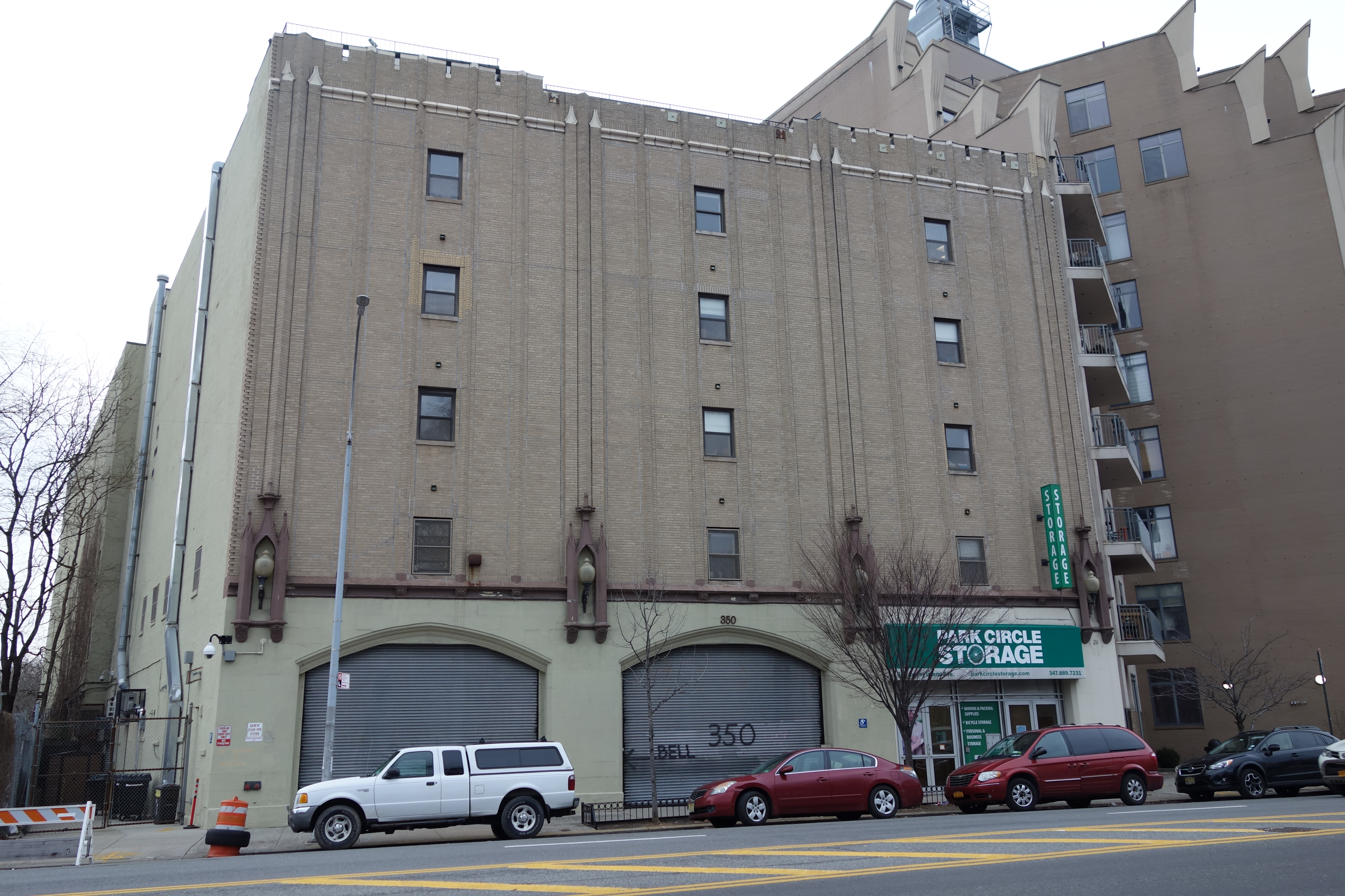 Looking across at 350 Coney Island Avenue, on the west side of Coney Island Avenue between Caton Place and Kermit Place in Windsor Terrace, Brooklyn. A portion of the warehouse contains the Bridges to Brooklyn (9th-10th grades) section of the Brooklyn College Academy.